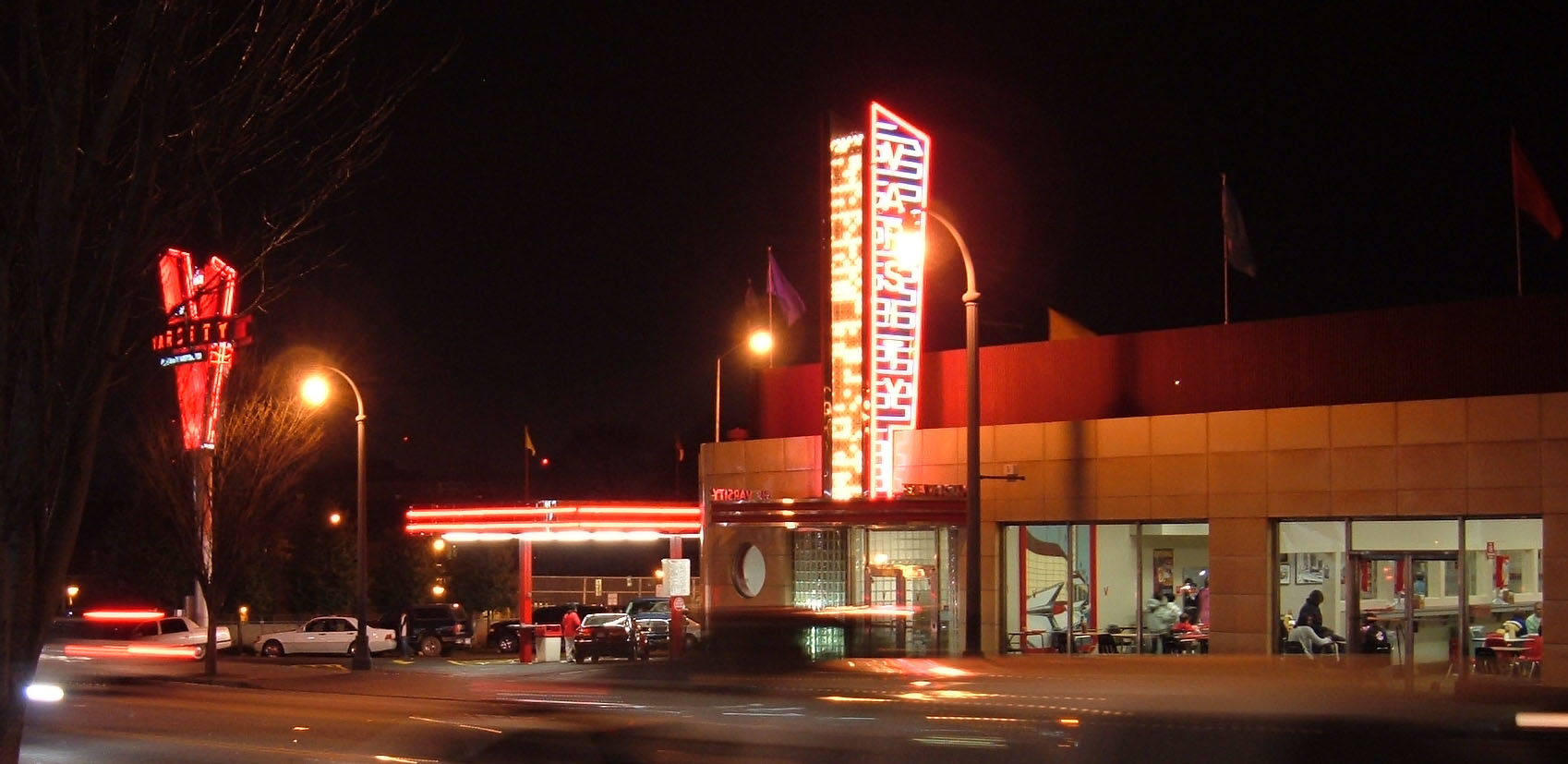 The Varsity (North Ave. locaton) on a Saturday night (Atlanta, GA, USA)